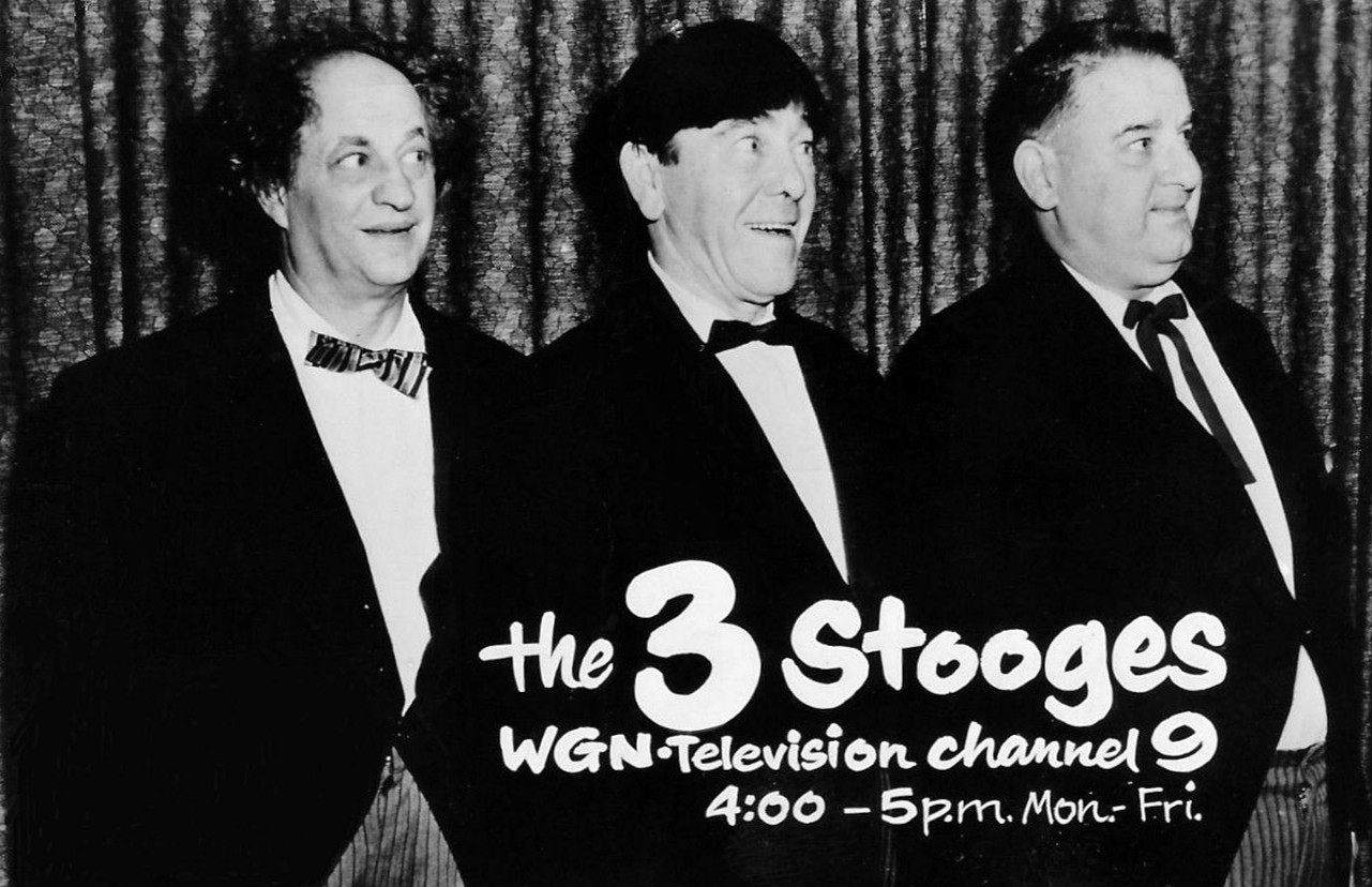 Postcard photo of The Three Stooges. From left: Larry Fine, Moe Howard, and Joe DeRita. Curly Howard, one of the original Stooges, suffered a debilitating stroke while filming in 1946 and died in 1952. After Curly was unable to work, Shemp Howard rejoined the act, hoping that his brother would be well enough to eventually return, staying with the team until he died suddenly in 1955. After Shemp's death, Howard and Fine approached Joe Besser, who appeared as a Stooge from 1956 to 1957, when the comedy trio was let go by Columbia. In early 1958, Columbia's television outlet, Screen Gems, released a package of the old Stooges movie shorts for airing on television. Many local markets bought the package and used them as part of their childrens' programming on weekday afternoons. The airing of the old films on television revived the Stooges' careers, but due to family health issues, Joe Besser declined their invitation to rejoin the trio. Fine and Howard then turned to Joe DeRita for the third man of their act. He accepted, becoming Curly Joe because of his resemblance to Curly Howard. DeRita eventually shaved his head as Curly Howard had done. The card was sent by WGN-TV in Chicago, which was one of the local television stations airing The Three Stooges film packages.